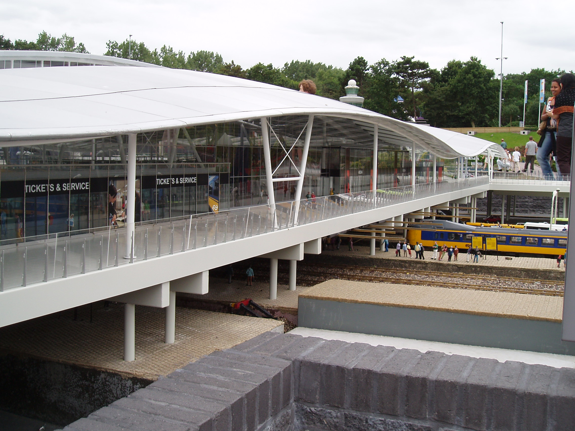 Madurodam in the Hague in the Netherlands